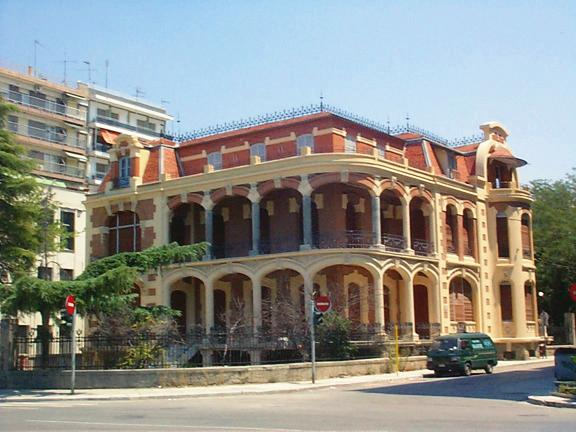 View from outside, image from the Folklore and Ethnological Museum of Macedonia and Thrace, Thessaloniki, Central Macedonia, Greece